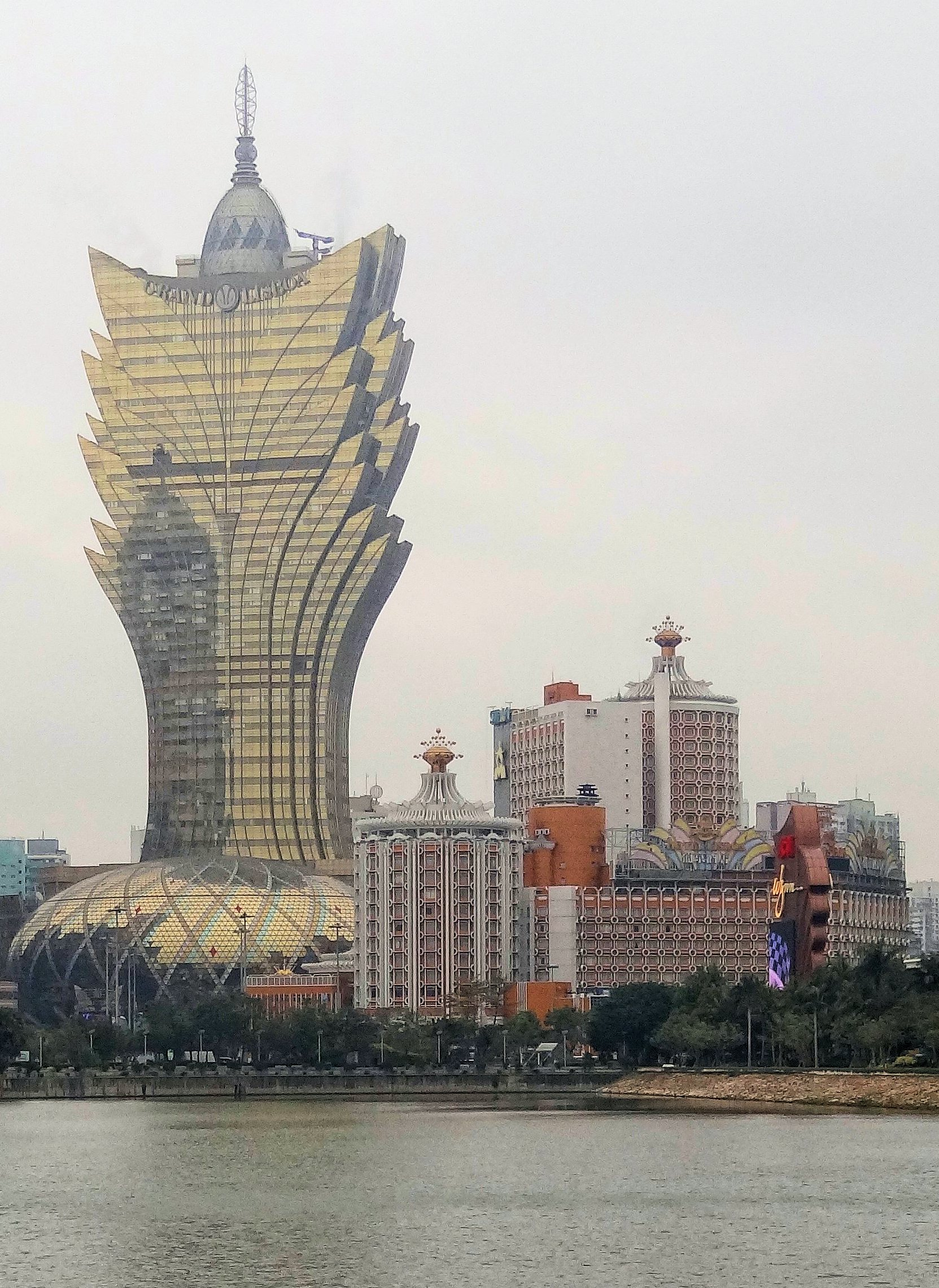 The Grand Lisboa and Hotel Lisboa in central Macau.